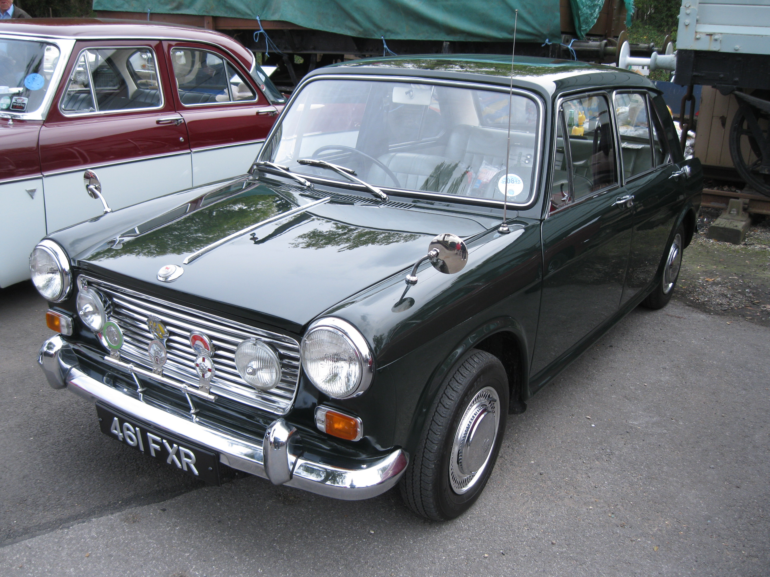 Early Issigonis Hydrolastic 1100, spotted at an Austin Counties Club meeting at Tenterden Station on the Kent & East Sussex Railway.